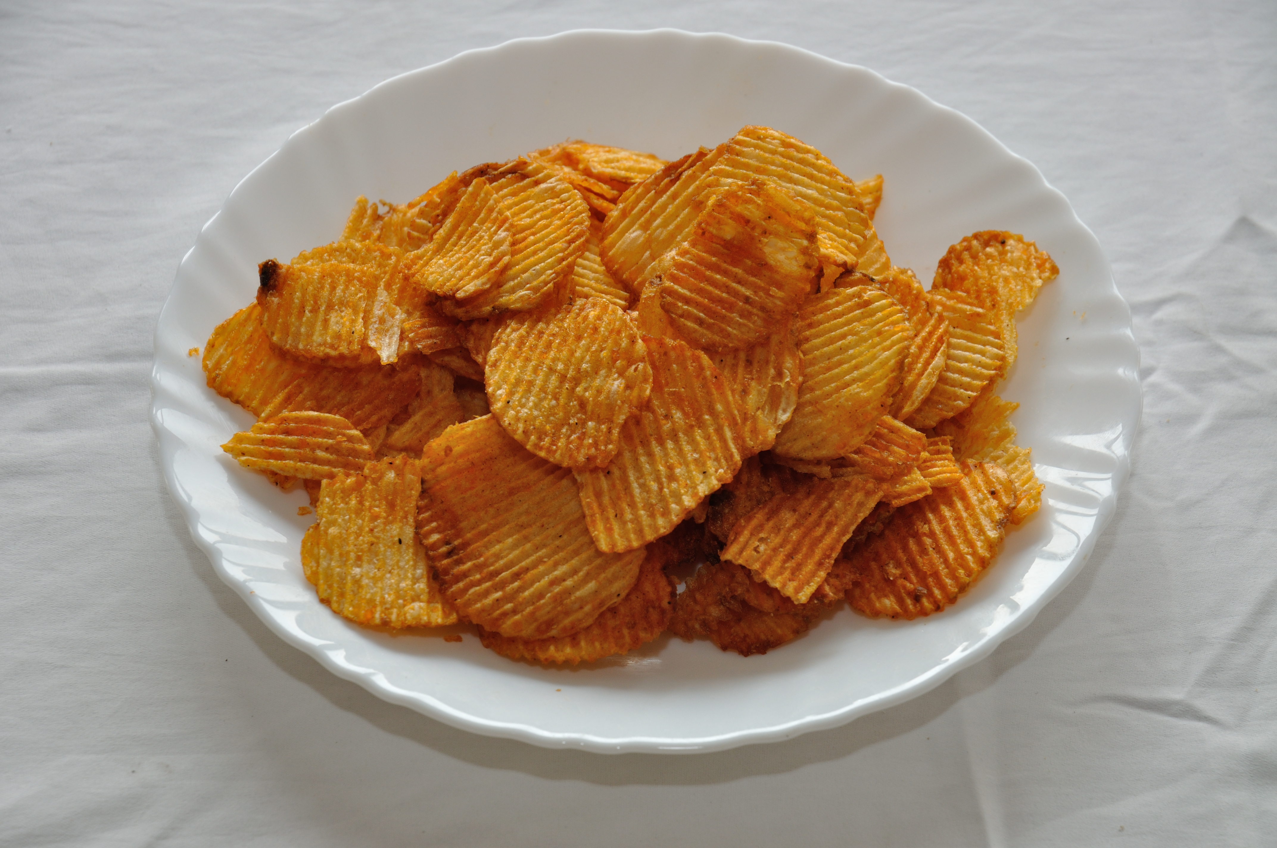 Photographed in Kolkata.